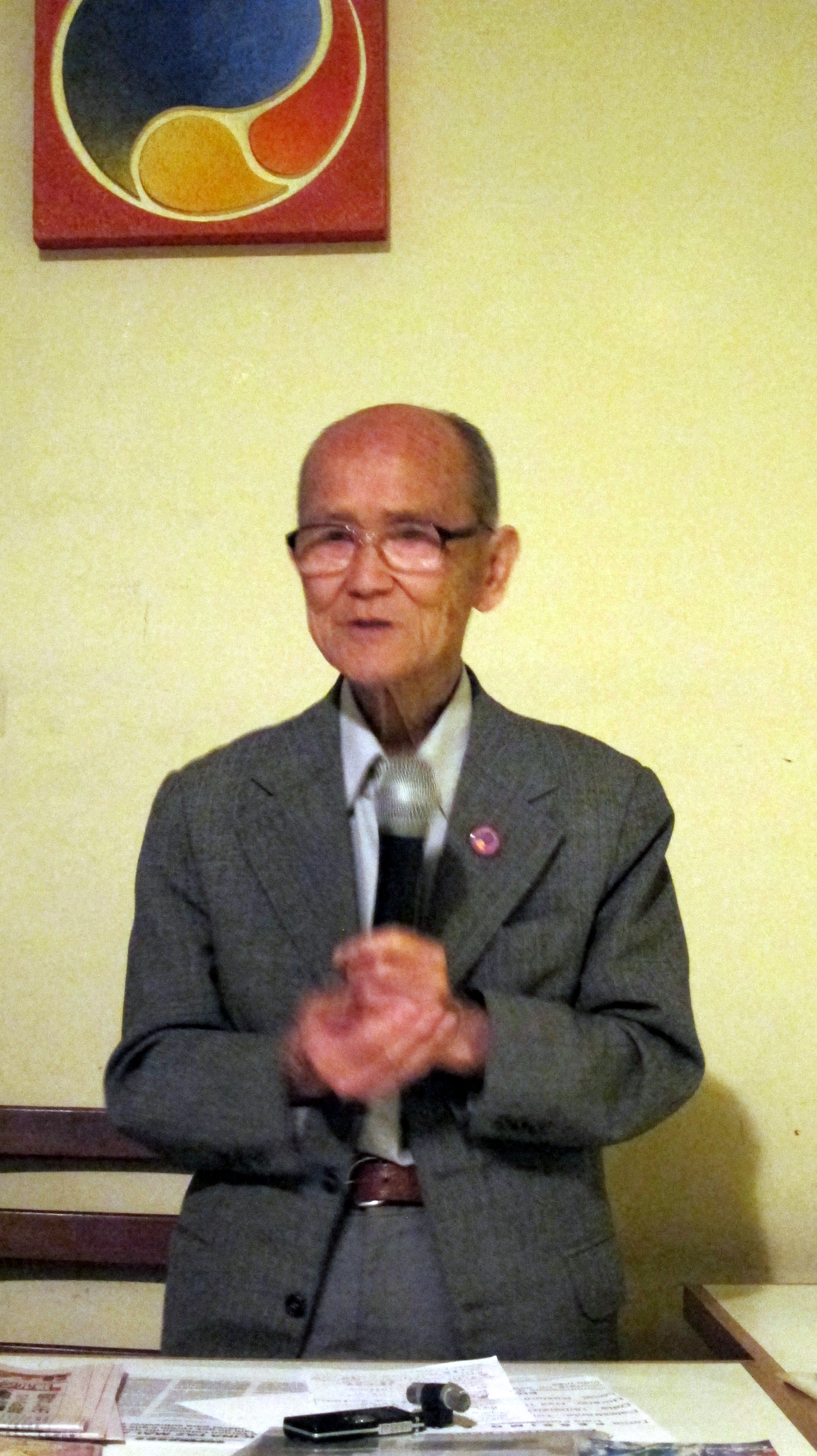 Teacher Tomio Kikuchi uttering a lecture in the restaurant Satori, São Paulo, SP, Brazil in 15/06/2013